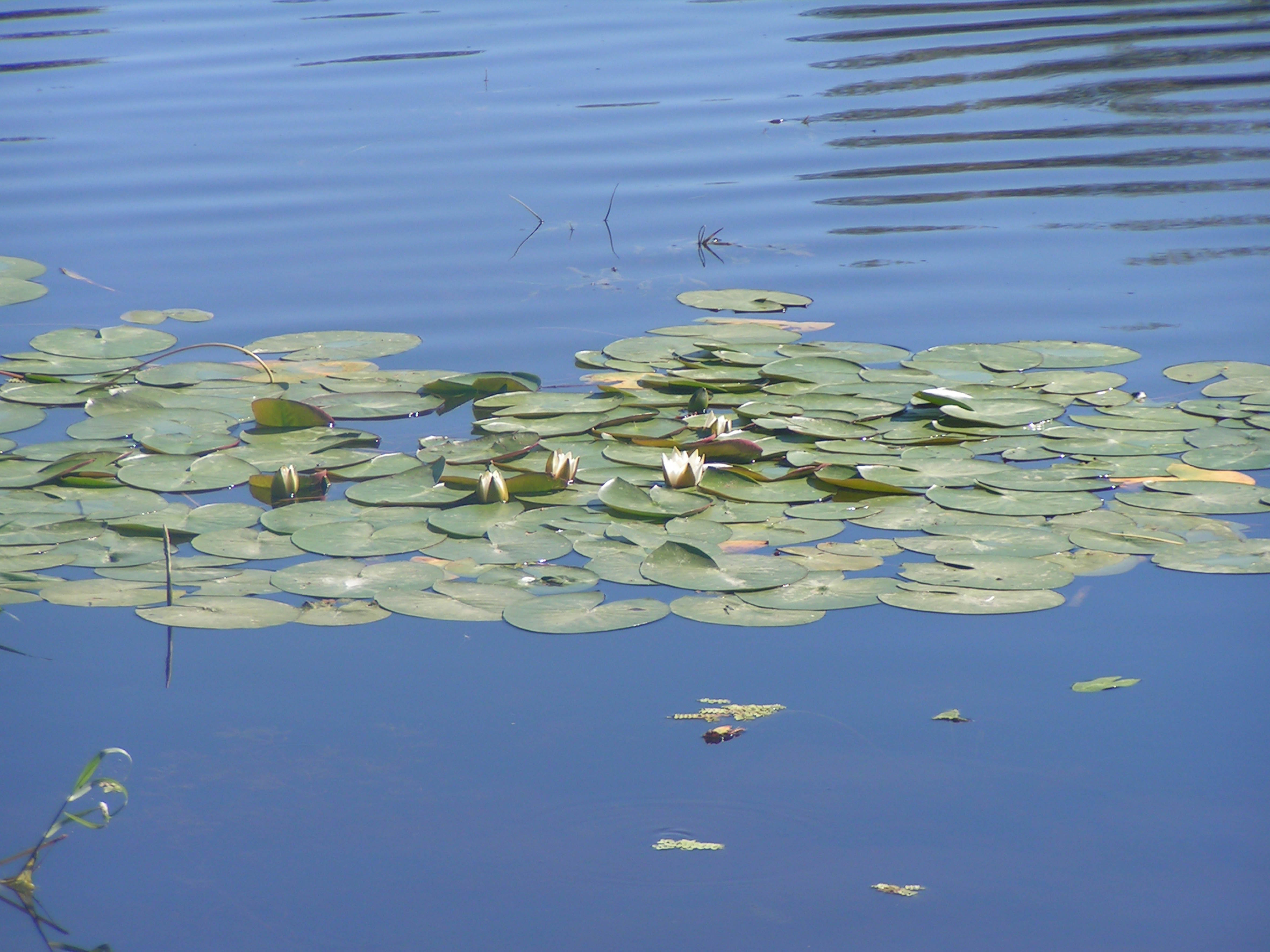 Nymphaea. Natural Park Volga-Akhtuba floodplain, Volgograd Region.